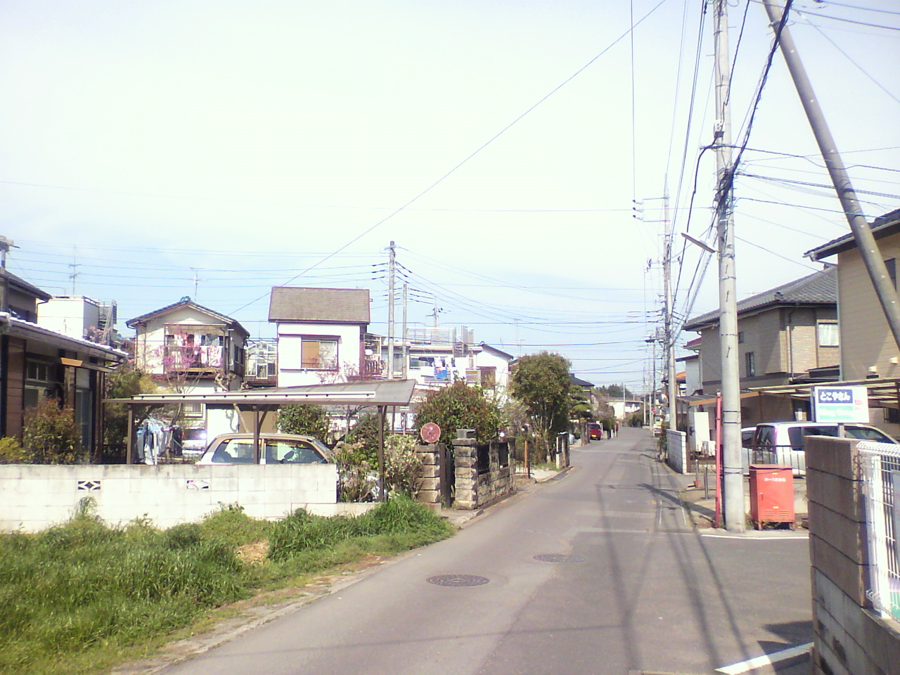 This is a landscape of Takamihara, Tsukuba, Ibaraki, Japan.